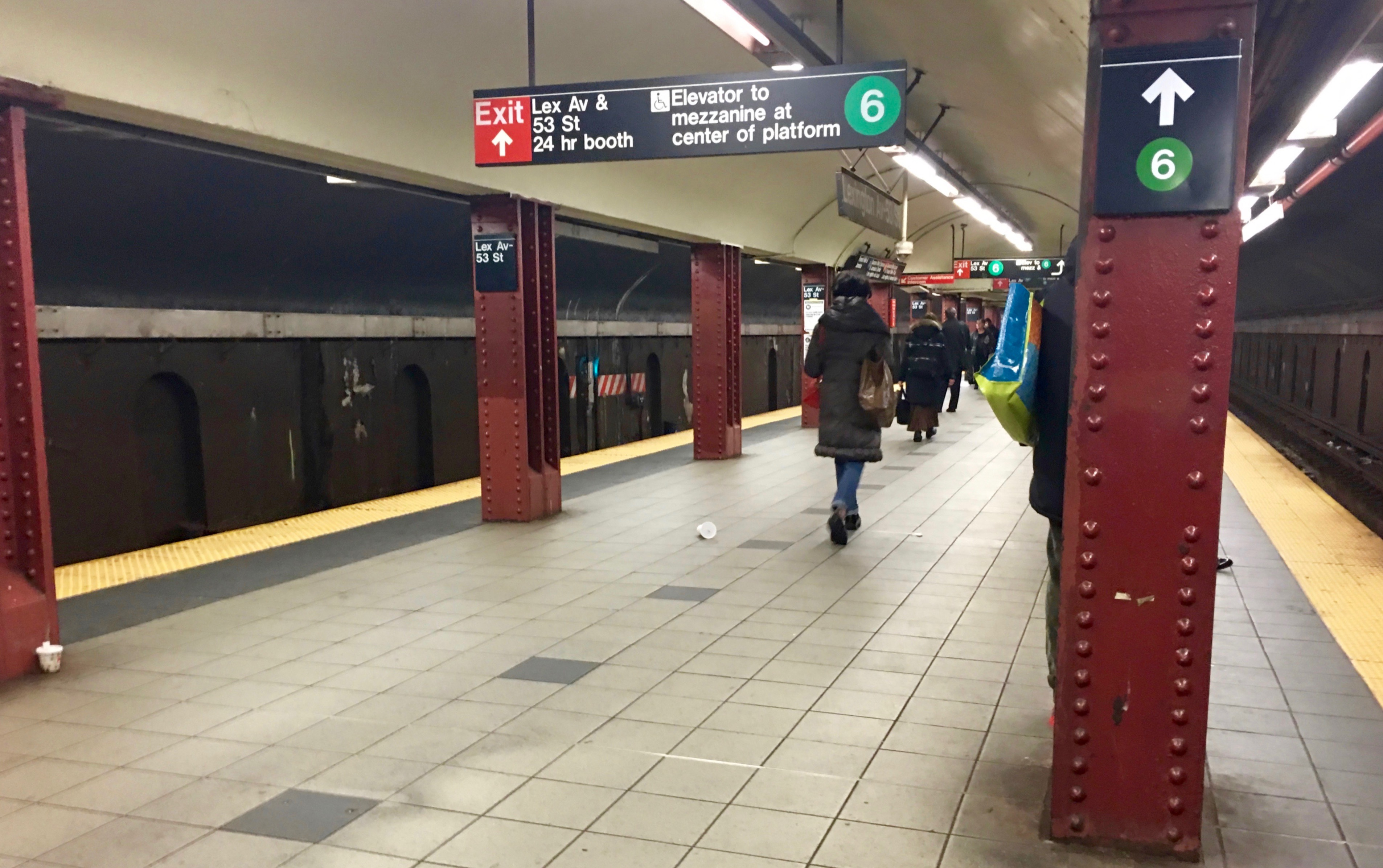 Platform at Lexington Avenue - 53rd Street on the iND 53rd Street E/M line.